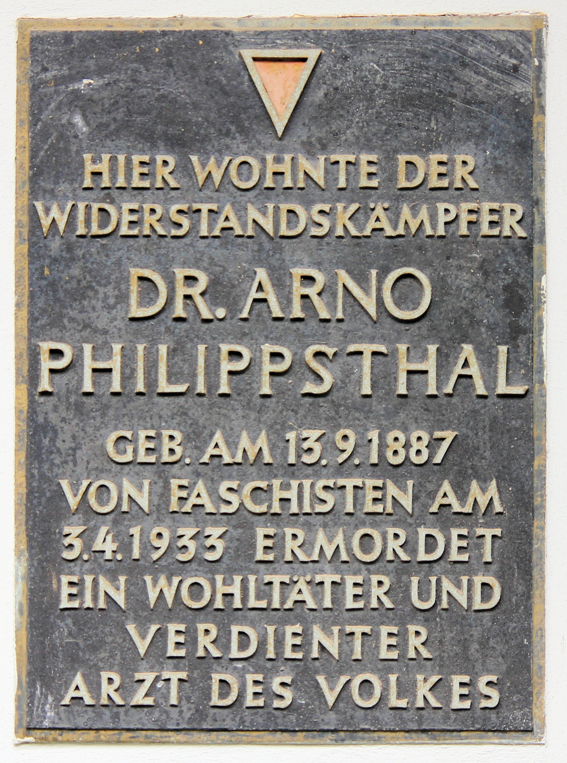 Memorial plaque, Arno Philippsthal, Oberfeldstraße 10, Berlin-Biesdorf, Germany Koordinate:52°30′56″N 13°33′17″E / 52.51556°N 13.55472°E